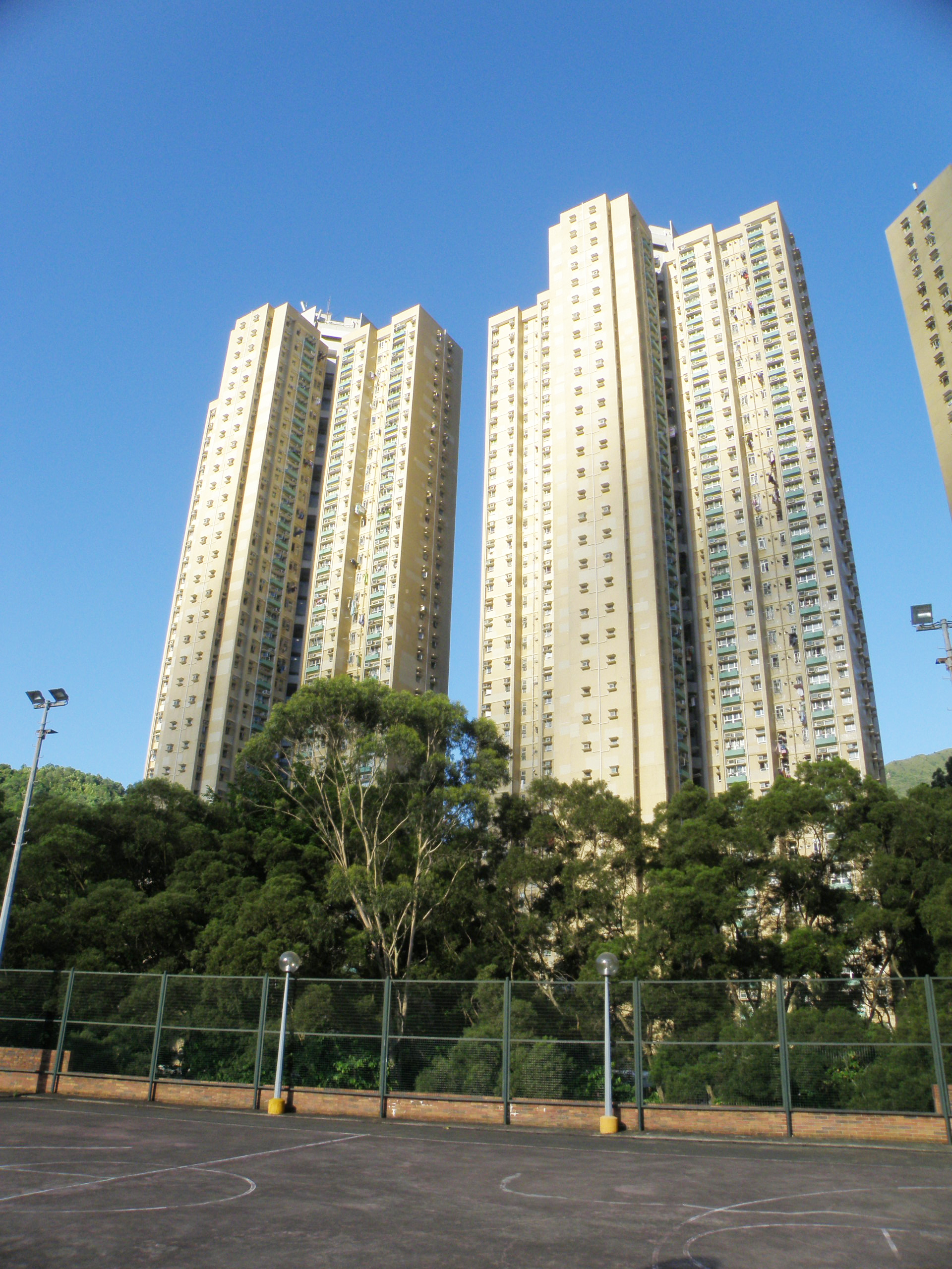 Kwong Yuen disciplined services quarters in Siu Lek Yuen, Hong Kong.